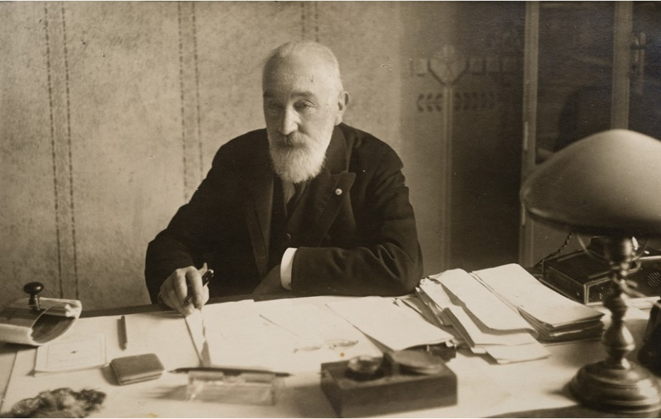 Marko T. Leko, notable Serbian scientist, chemist, professor and president of the Serbian Red Cross